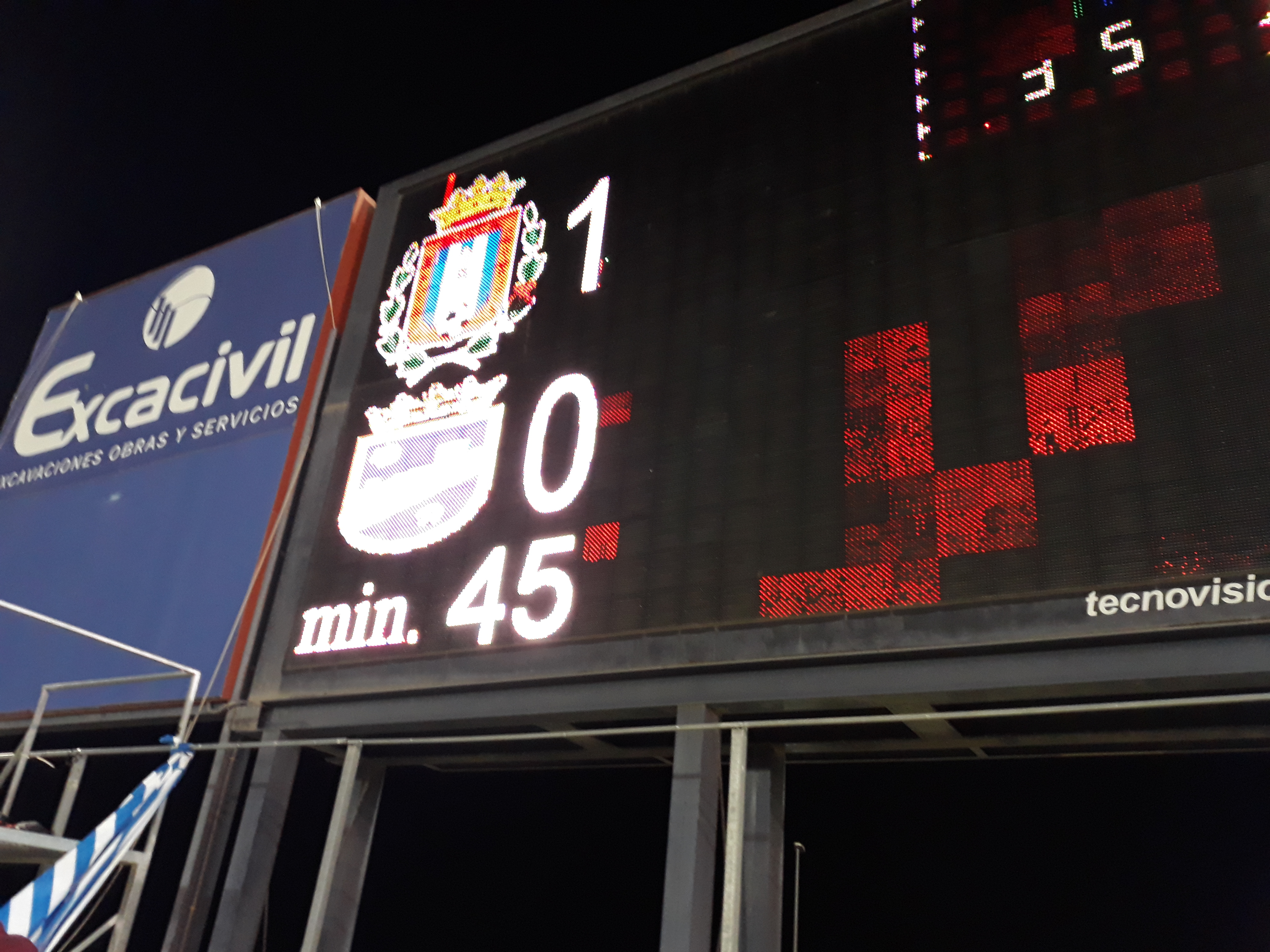 CF Lorca Deportiva - Lorca FC (25-11-2018)